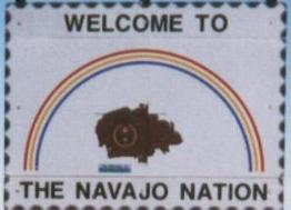 Entering Navajo Indian Reservation